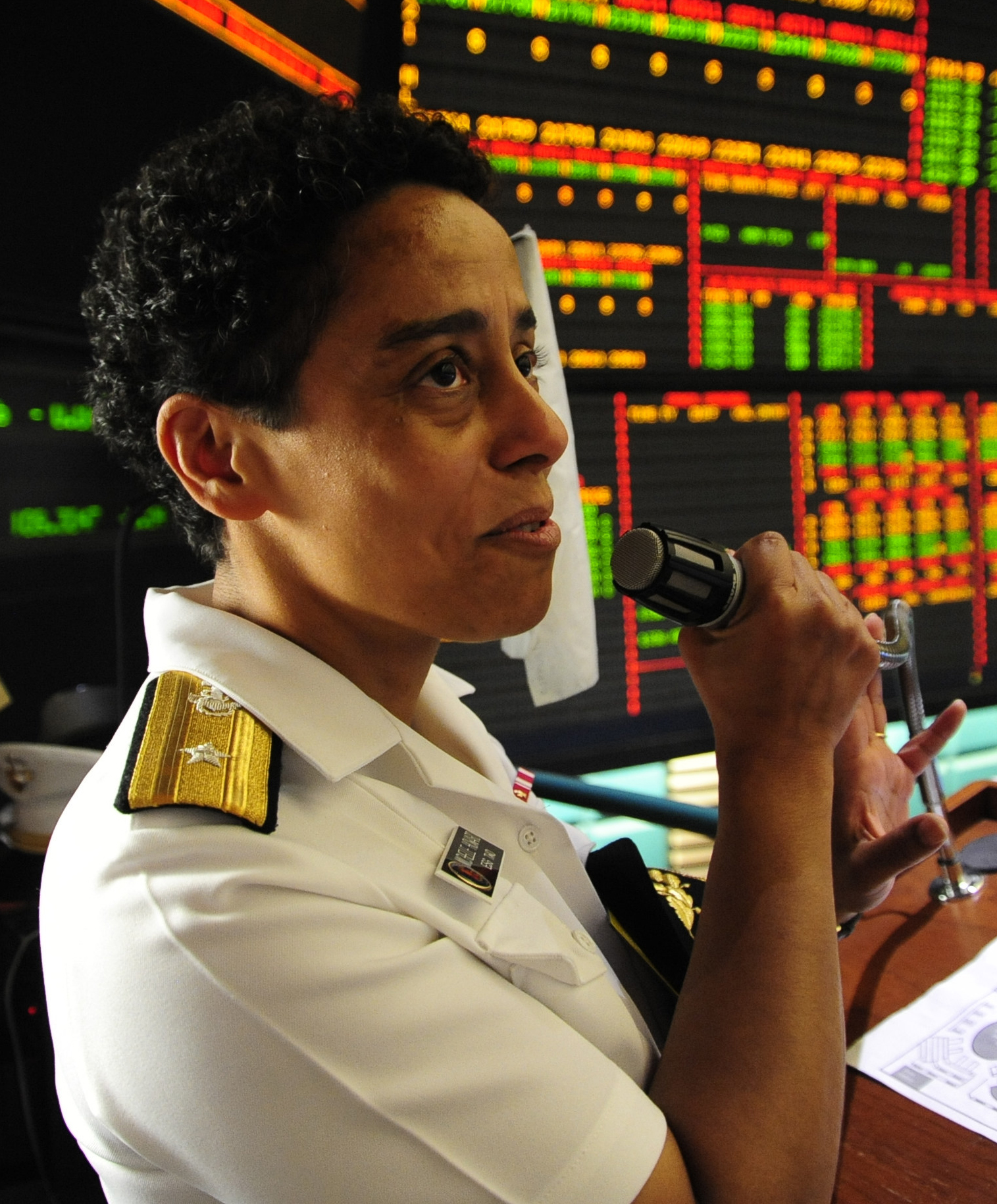 U.S. Navy Rear Adm. Michelle Howard, commander of U.S. Navy Expeditionary Strike Group 2, speaks at the New York Mercantile Exchange June 1, 2010, during New York’s 23rd annual Fleet Week. Approximately 3,000 Sailors, Marines and Coast Guardsmen participated in the 2010 Fleet Week, a celebration of U.S. maritime services. (U.S. Navy Photo by Mass Communication Specialist Seaman Jennifer Castillo/Released)